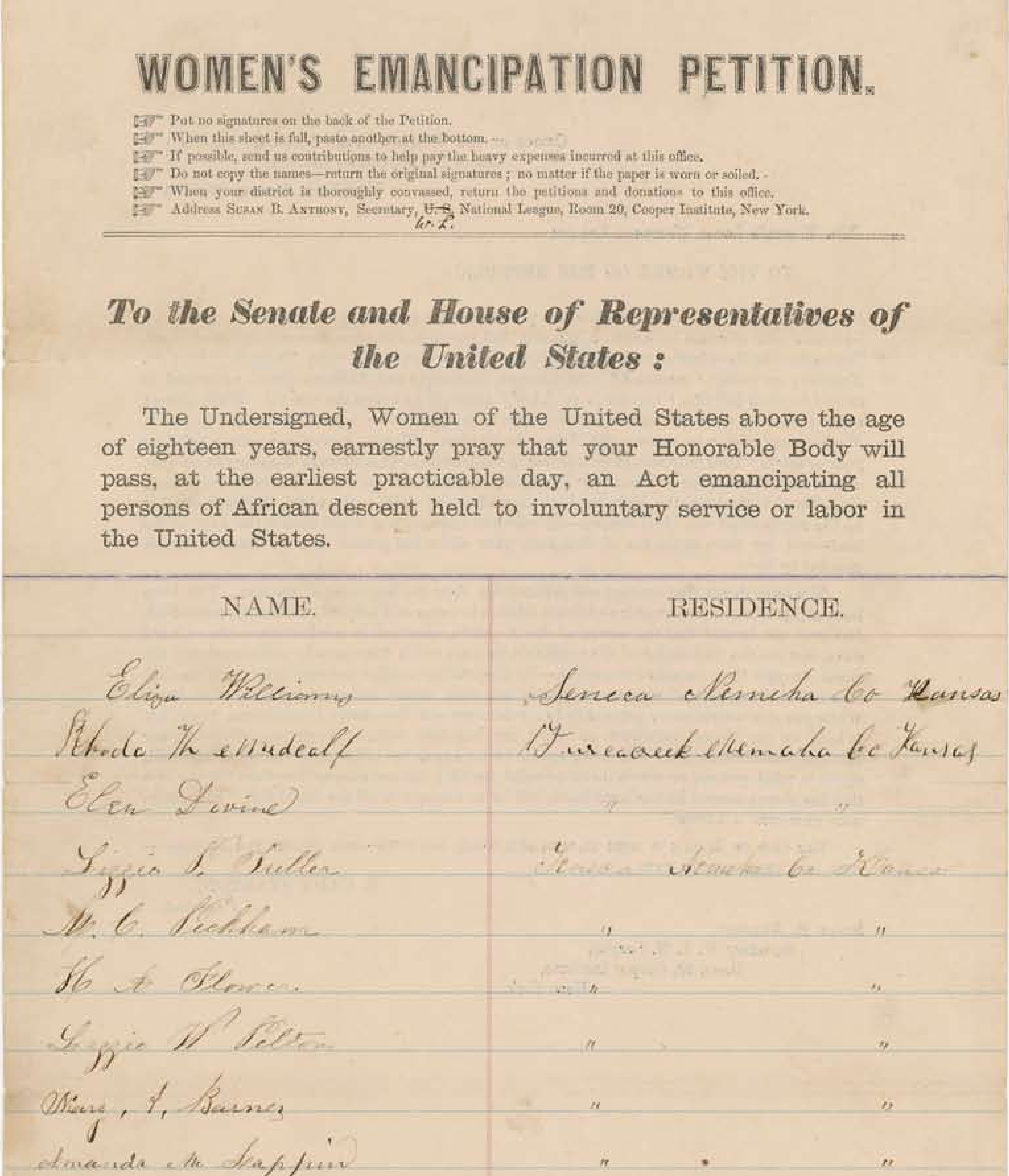 Petition created by Susan B. Anthony and Elizabeth Cady Stanton for the petition drive organized by the Woman's Loyal National League in 1863 and 1864. It was the largest petition drive in the nation's history up to that point, collecting 400,000 signatures. The bottom part of this image was cropped from the original because it was difficult to read and mostly irrelevant except for the following text that had been added at the very bottom: citation: "To the Women of the Republic," address from the Women's Loyal National League supporting the abolition of slavery, January 25, 1864, SEN 38A-H20 (Kansas folder); RG 46, Records of the U.S. Senate, National Archives.